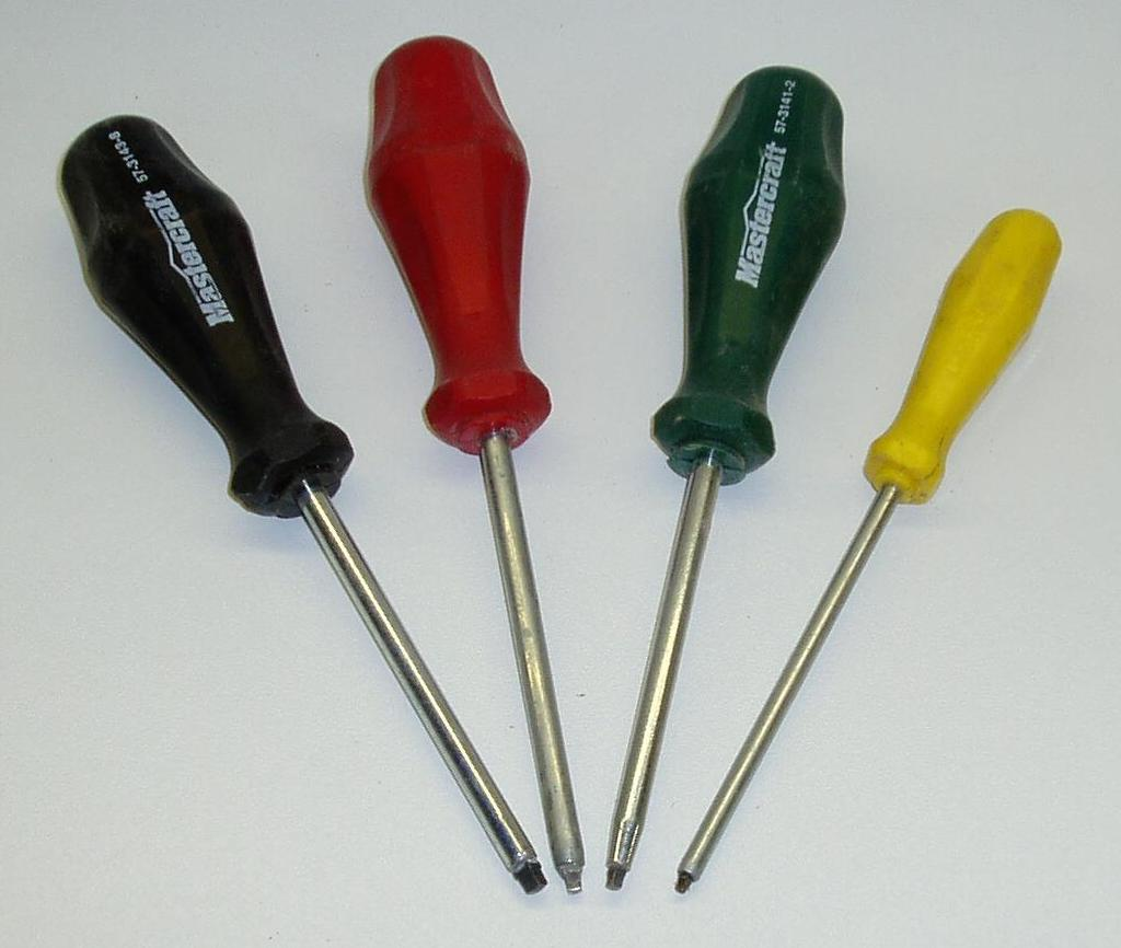 Picture of four Robertson screwdrivers (square bits) taken 16 October 2005 by Luigi Zanasi (myself) on my workbench using a Olympus digital camera.